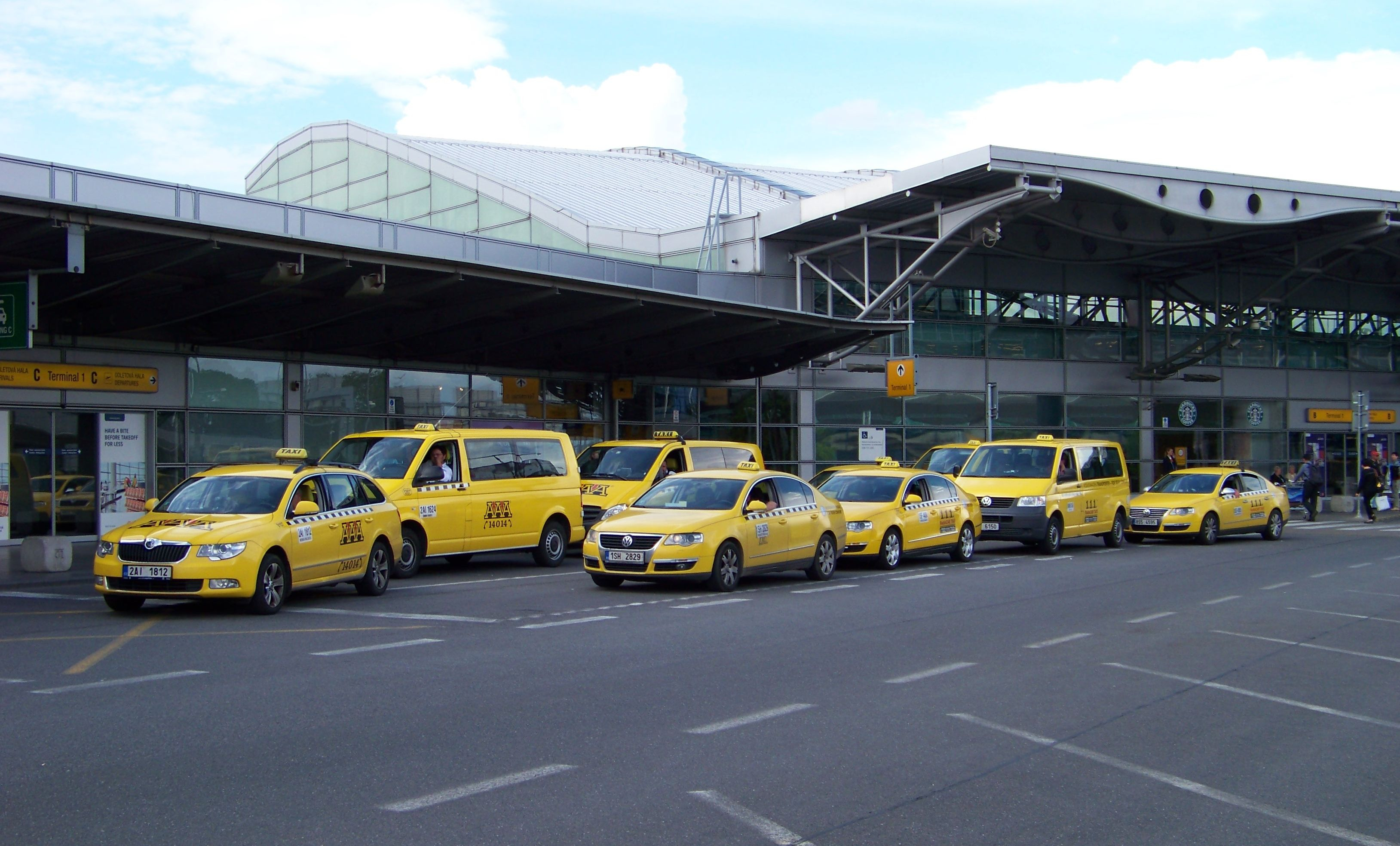 Prague-Ruzyně, the Czech Republic. The Airport, terminal 1, a taxicab stand.